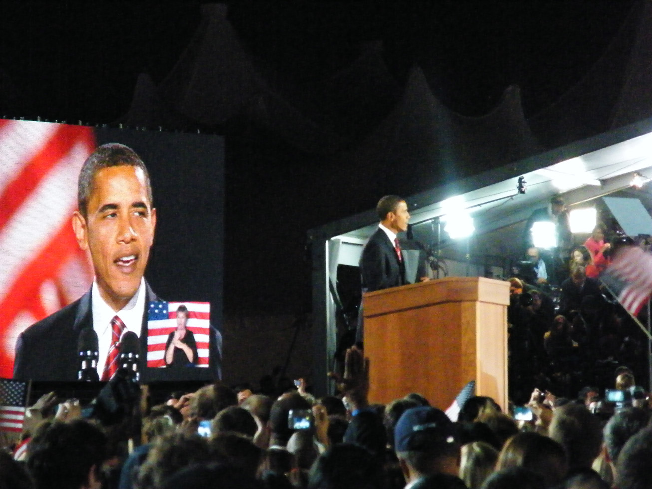 Free for personal and commercial use. Please credit as shown: (C) Wendy Piersall